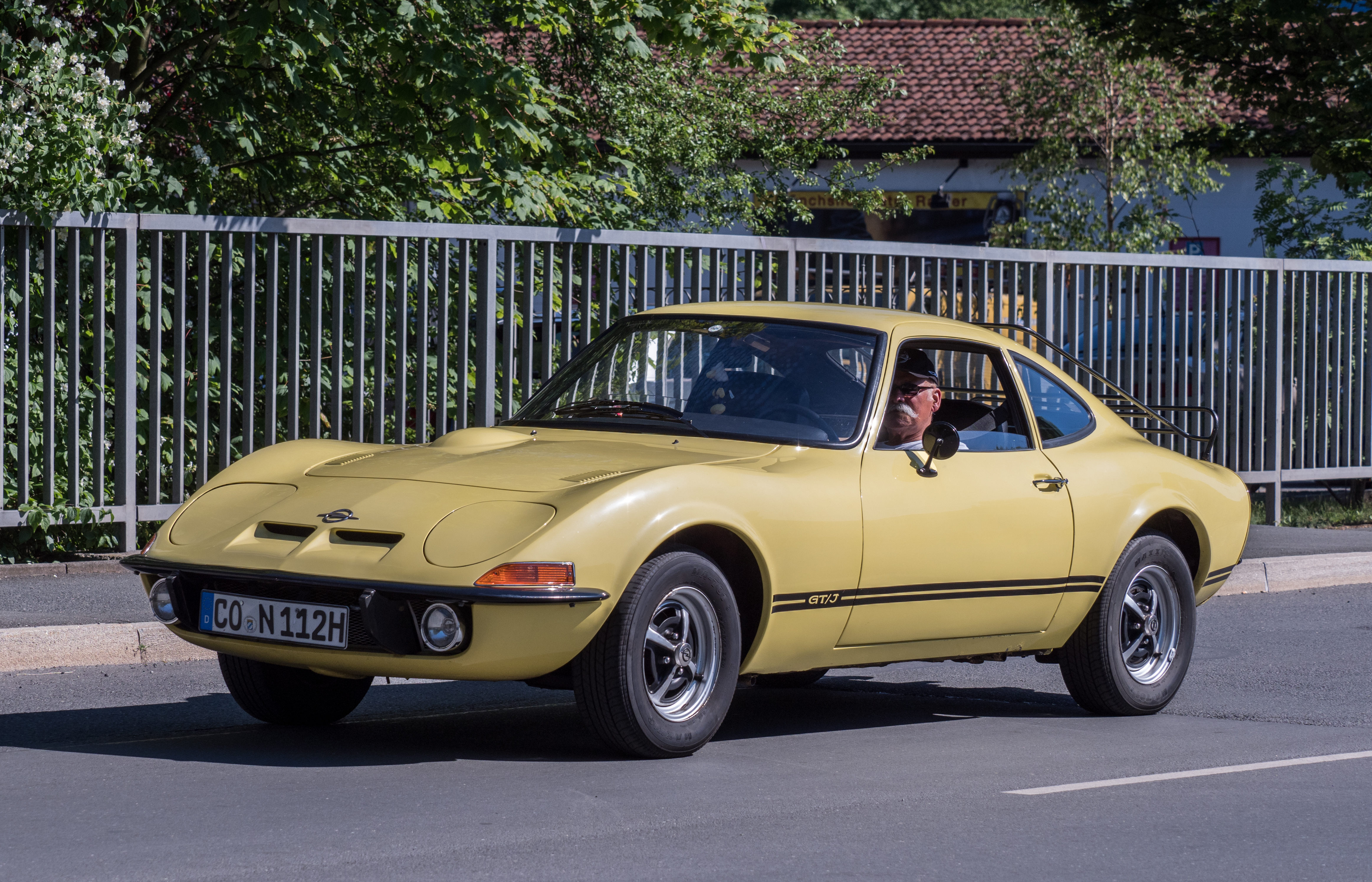 Opel GT at the oldtimer meeting in Kulmbach